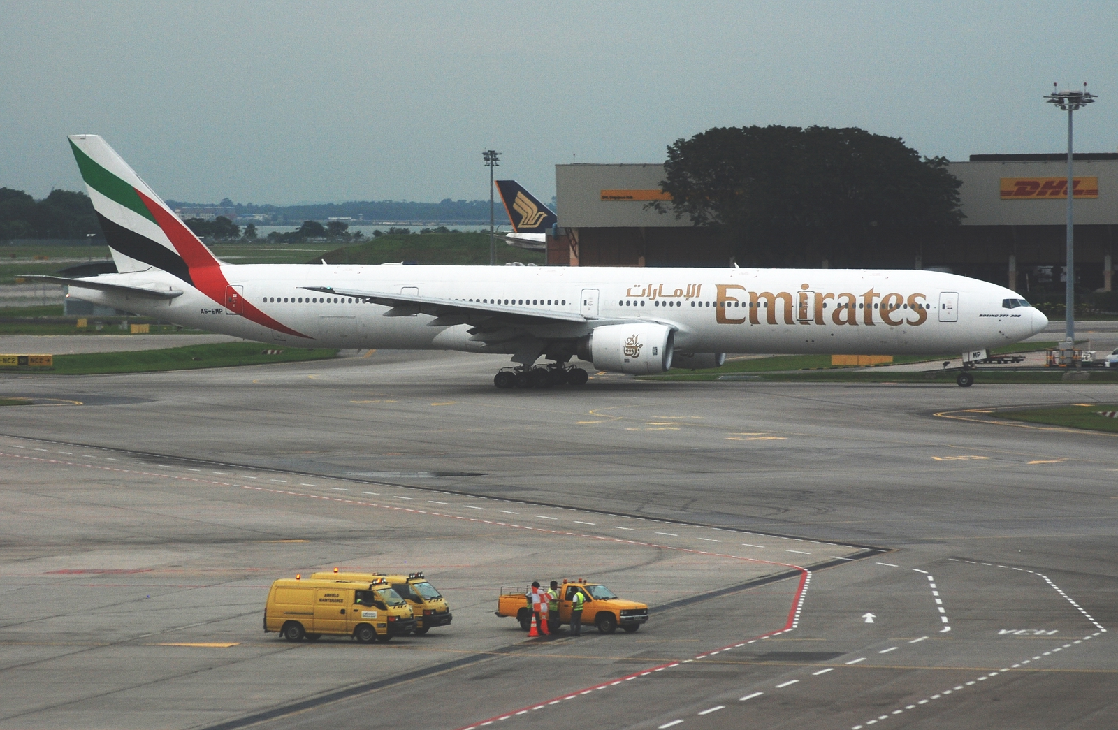 Emirates Boeing 777-300 (A6-EMP) taxiing on NC3 taxiway at Singapore Changi Airport.